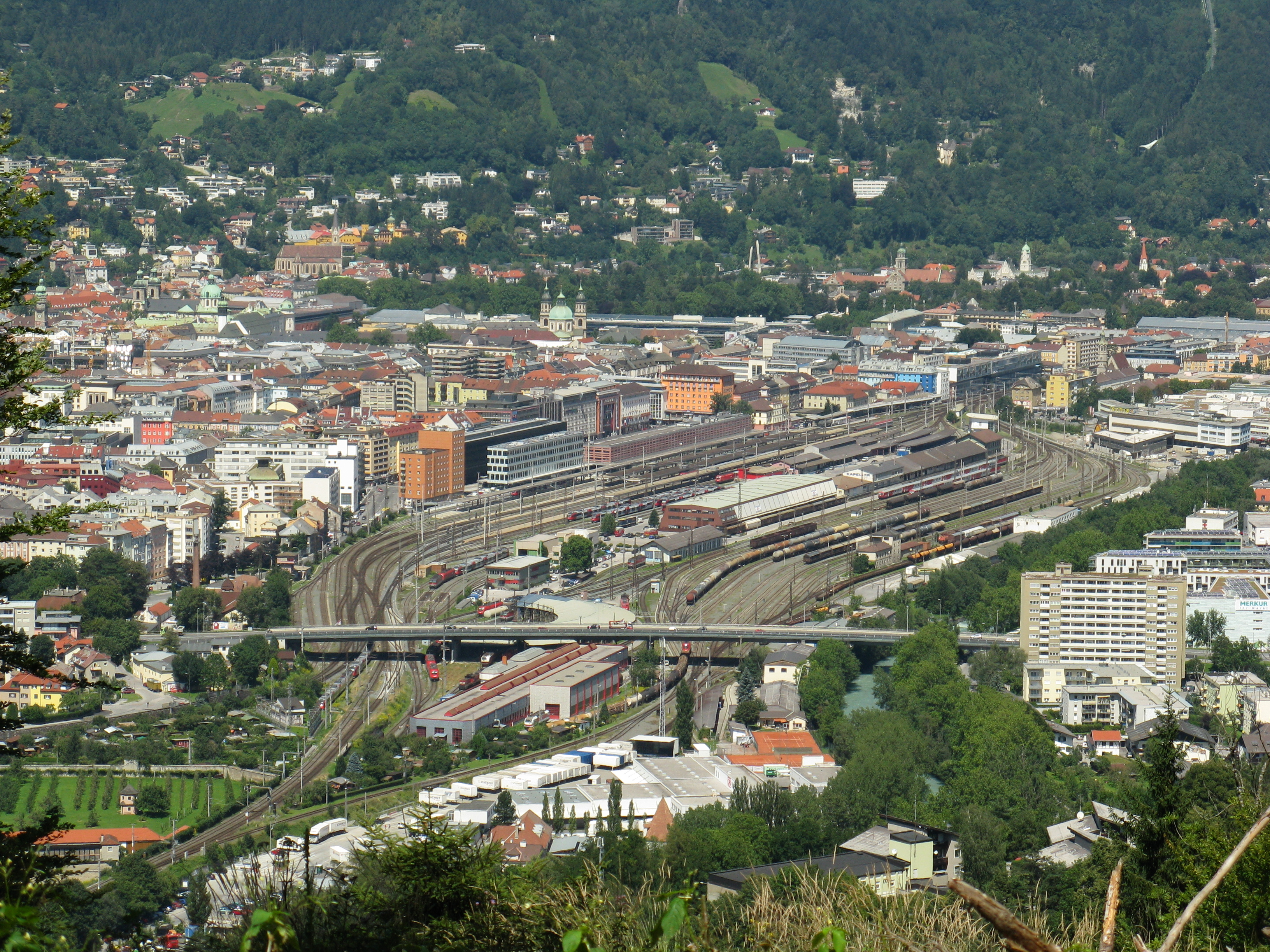 Innsbruck, Austria, view of main station (to north)